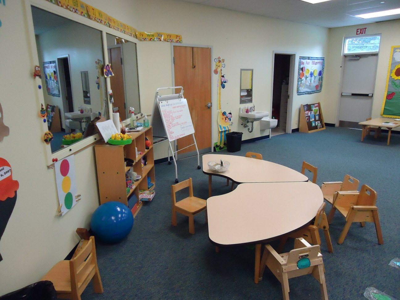 Classroom area for preschoolers at the Summit Speech School in New Providence, New Jersey.